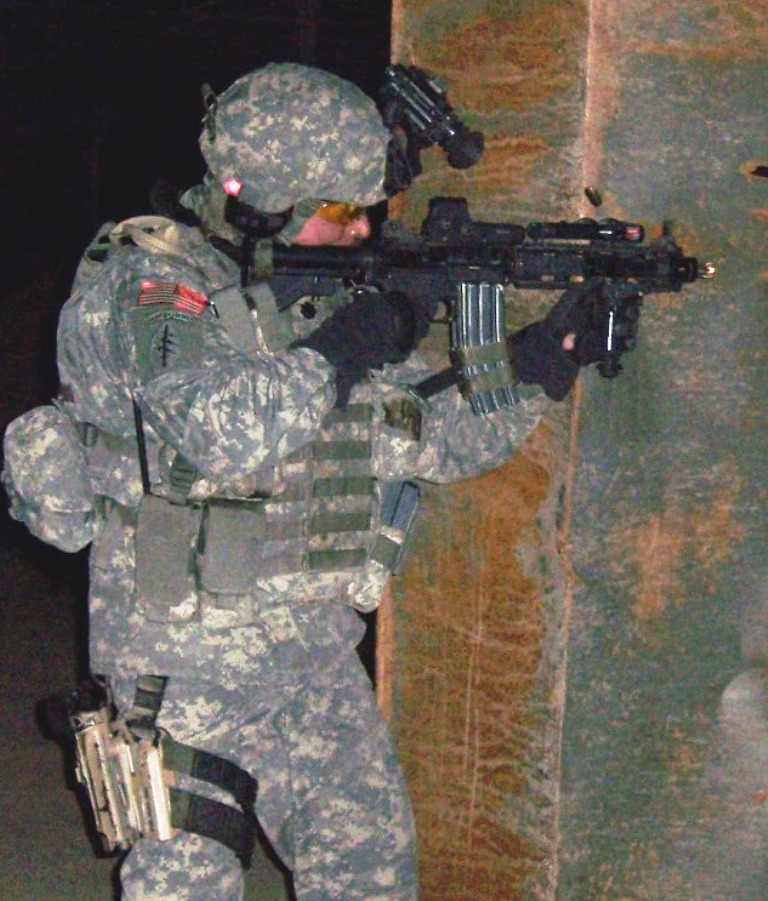 A U.S. Army Special Forces soldier wields his HK416 carbine in Baghdad, Iraq, in October 2006.